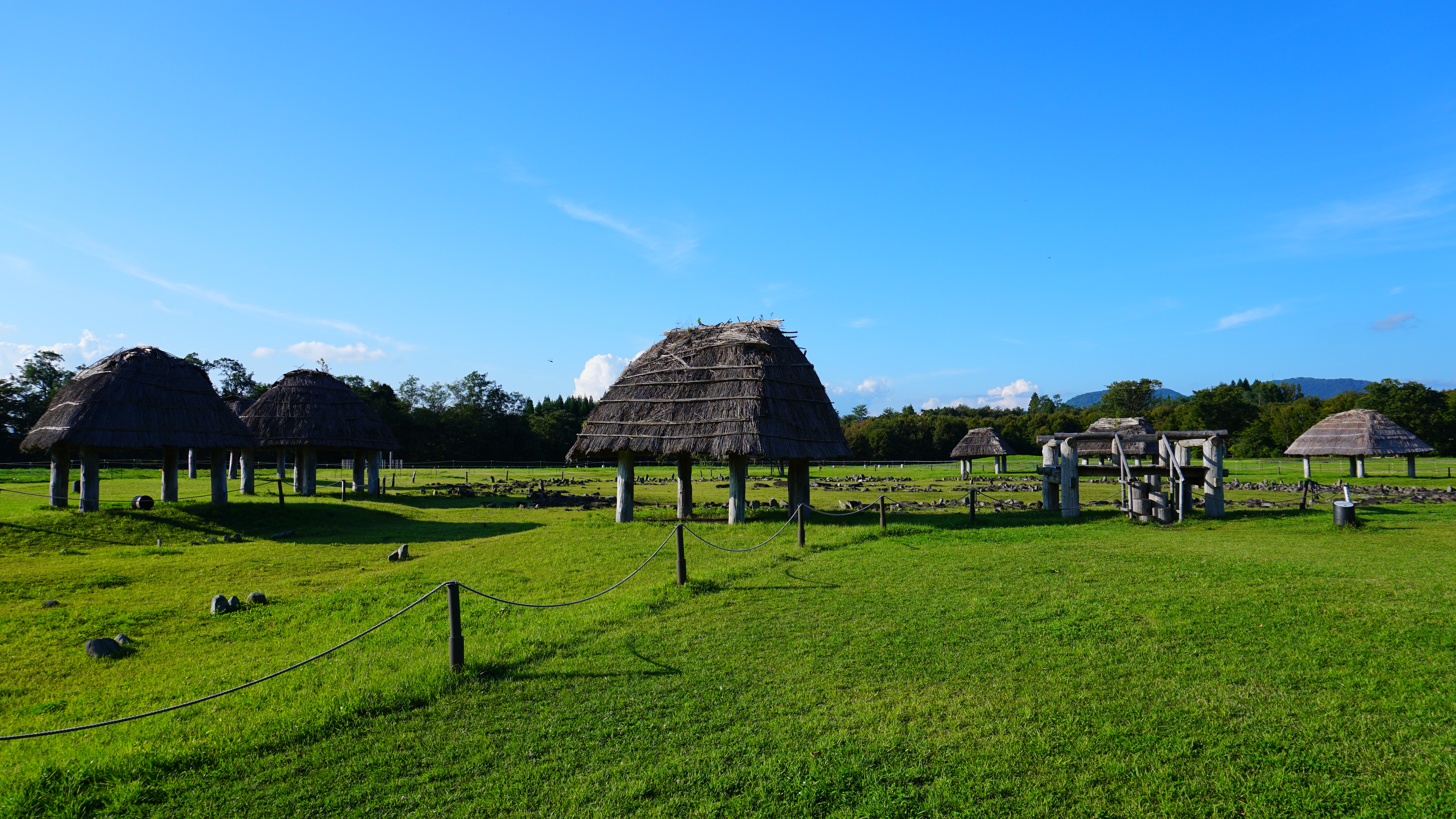 Ōyu Stone Circles is an ancient ruins in Kazuno City, Akita, Japan. The site is the largest stone circle in Japan.